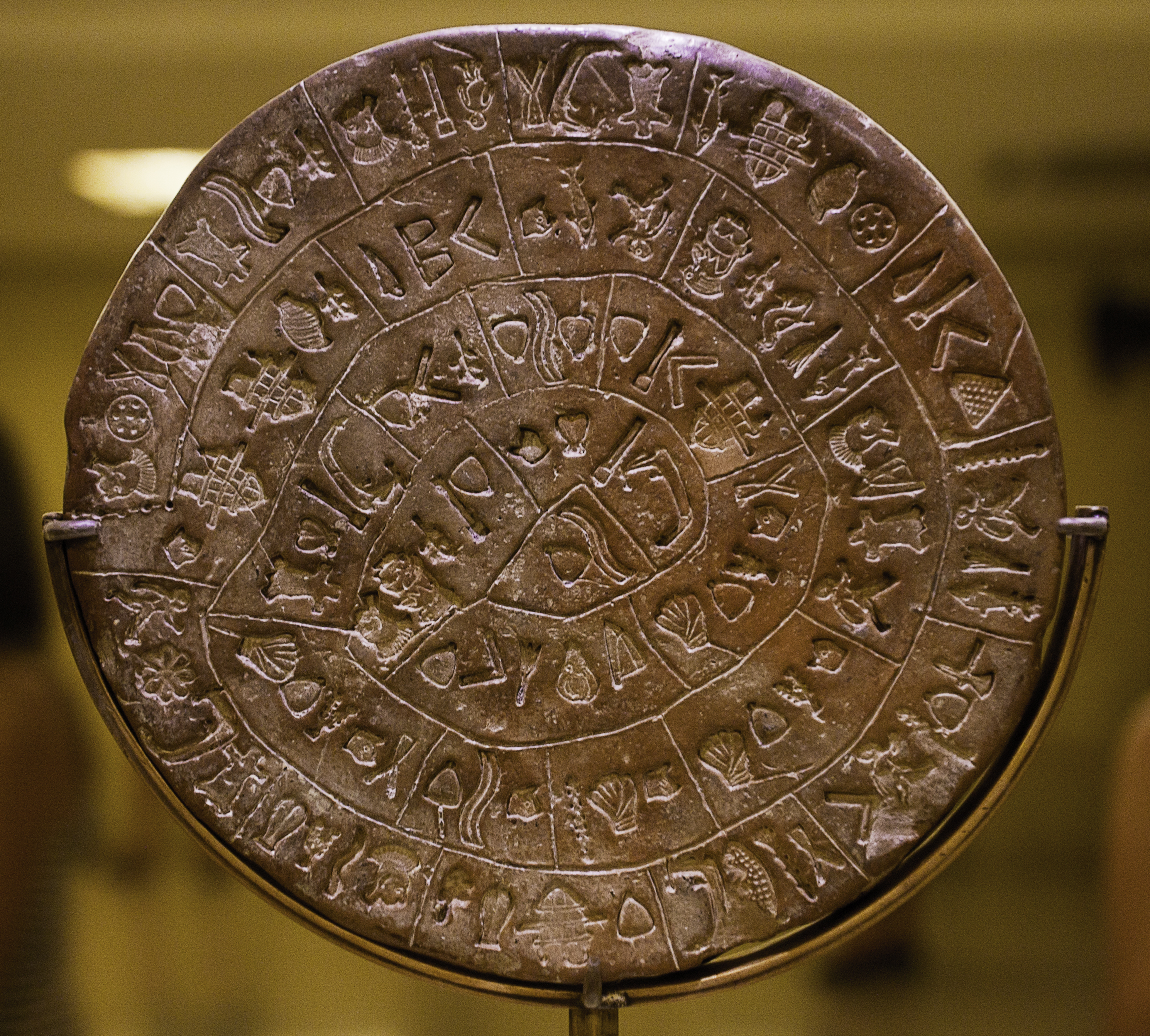 Phaistos Disk. Side B. Heraklion Archaeological Museum. Greece. 2010 July 22.